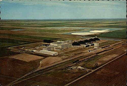 sask potash mine